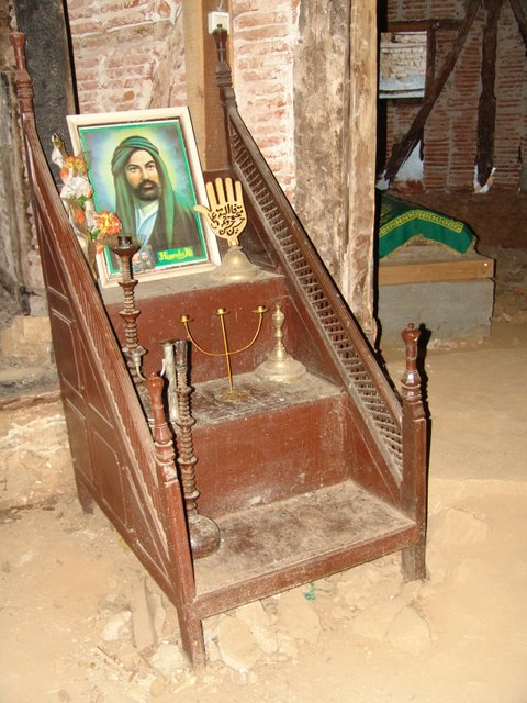 Harabati Baba Bektaşi Tekkesi (Arabati Baba Teḱe) - Kalkandelen (Tetovo), Makedonya 23 Eylül (Sept.) 2012